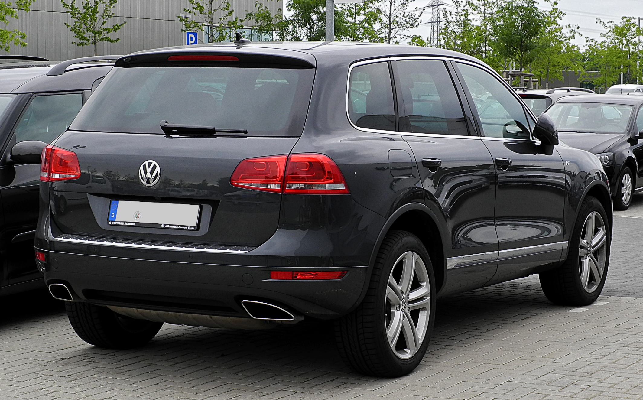 VW Touareg R-Line (II)